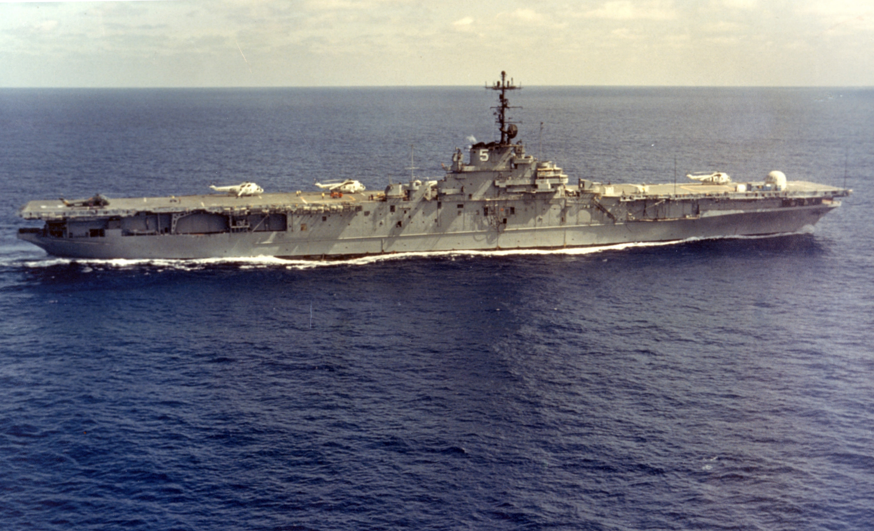 The U.S. Navy helicopter carrier USS Princeton (LPH-5) at sea during the operation to recover the Apollo 10 spacecraft in late May 1969. Visible on the flight deck are a Sikorsky UH-34 Seabat helicopter (green, aft) and three Sikorsky SH-3D Sea Kings of helicopter anti-submarine squadron HS-4 Black Knights. The rounded structure on the forward part of the flight deck is for use in housing the space capsule. The Apollo 10 was the pre-moon landing mission and landed on 26 May 1969, 16:52:23 UTC at 15°2′S 164°39′W (circa 500 km east of Samoa).